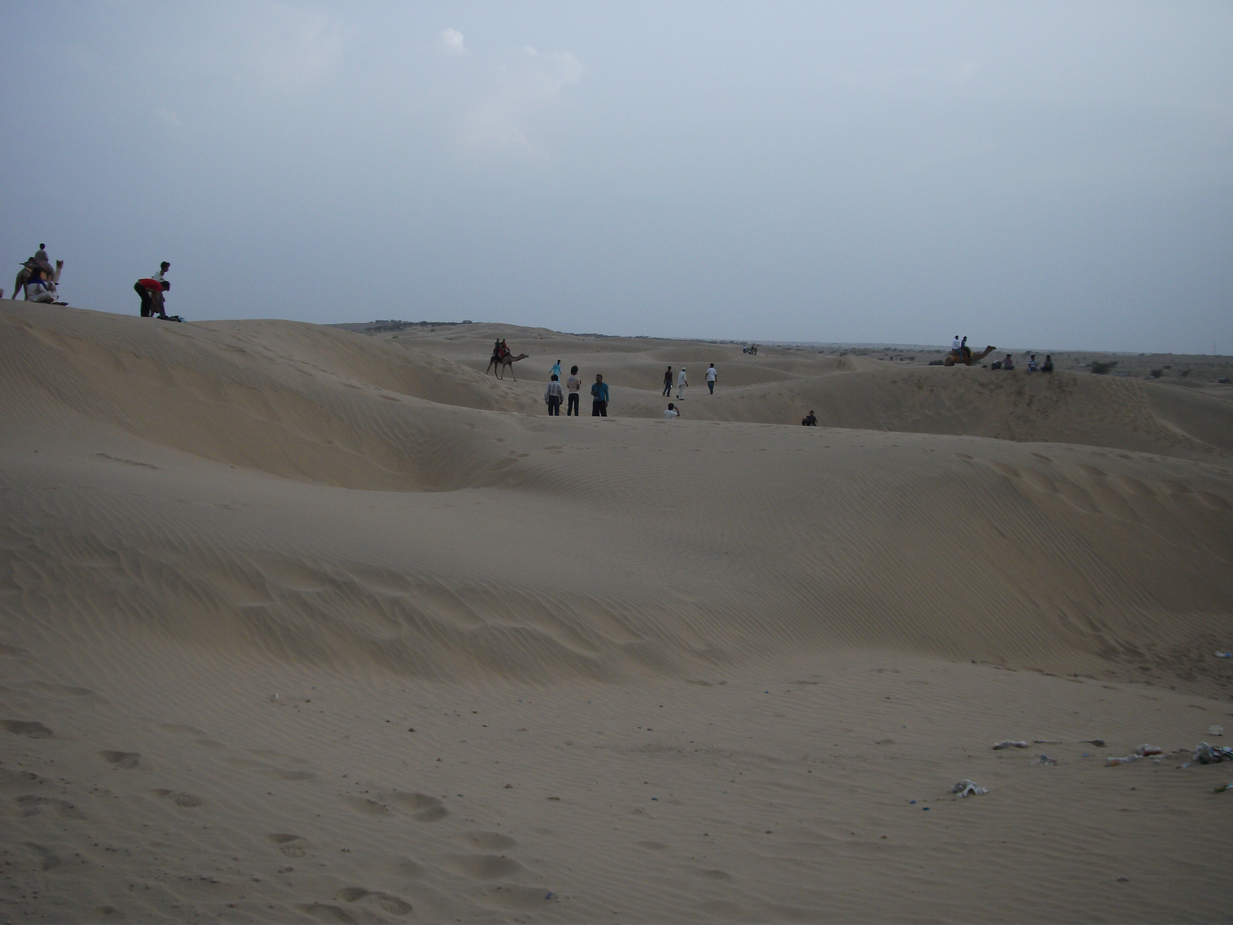 sum sand dunes